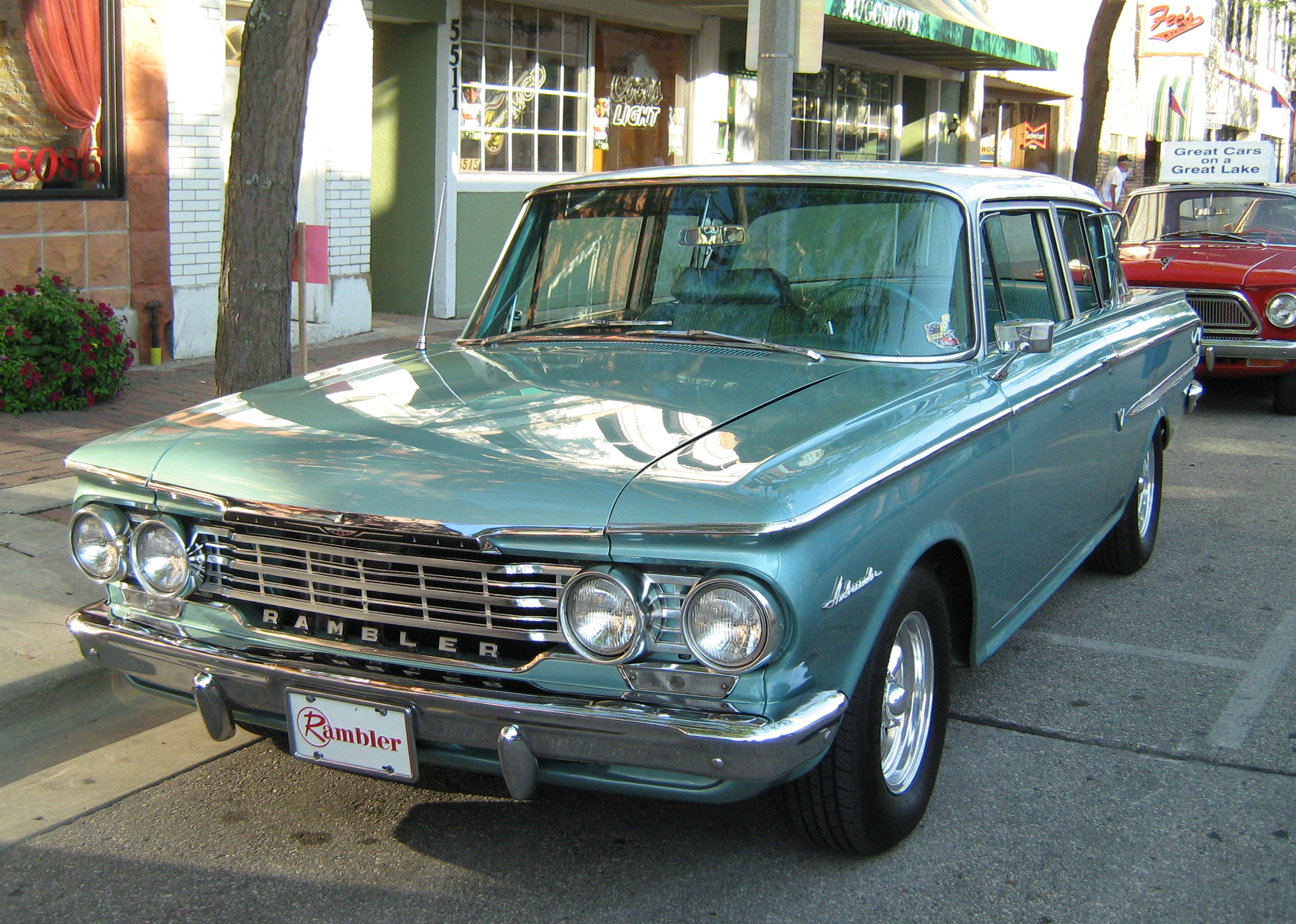 1962 Rambler Ambassador 400 model, two-door sedan - front view. Built by American Motors Corporation (AMC) and finished in green with a white roof. Photographed in Kenosha, Wisconsin, USA. Note: the wheels are not factory stock.